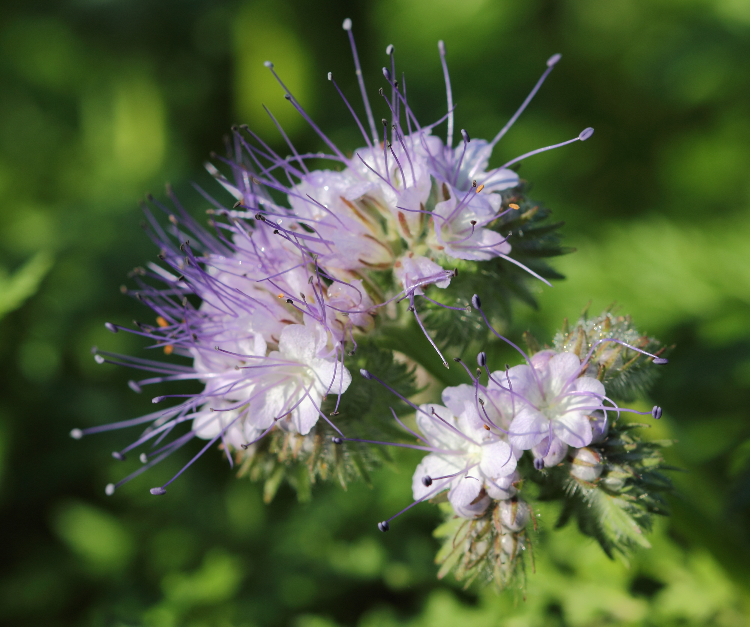 Lacy phacelia blossom, picture taken in private garden